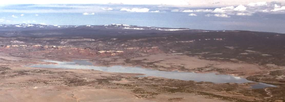 Abiquiu Lake in New Mexico, looking north from Cerro Pedernal.